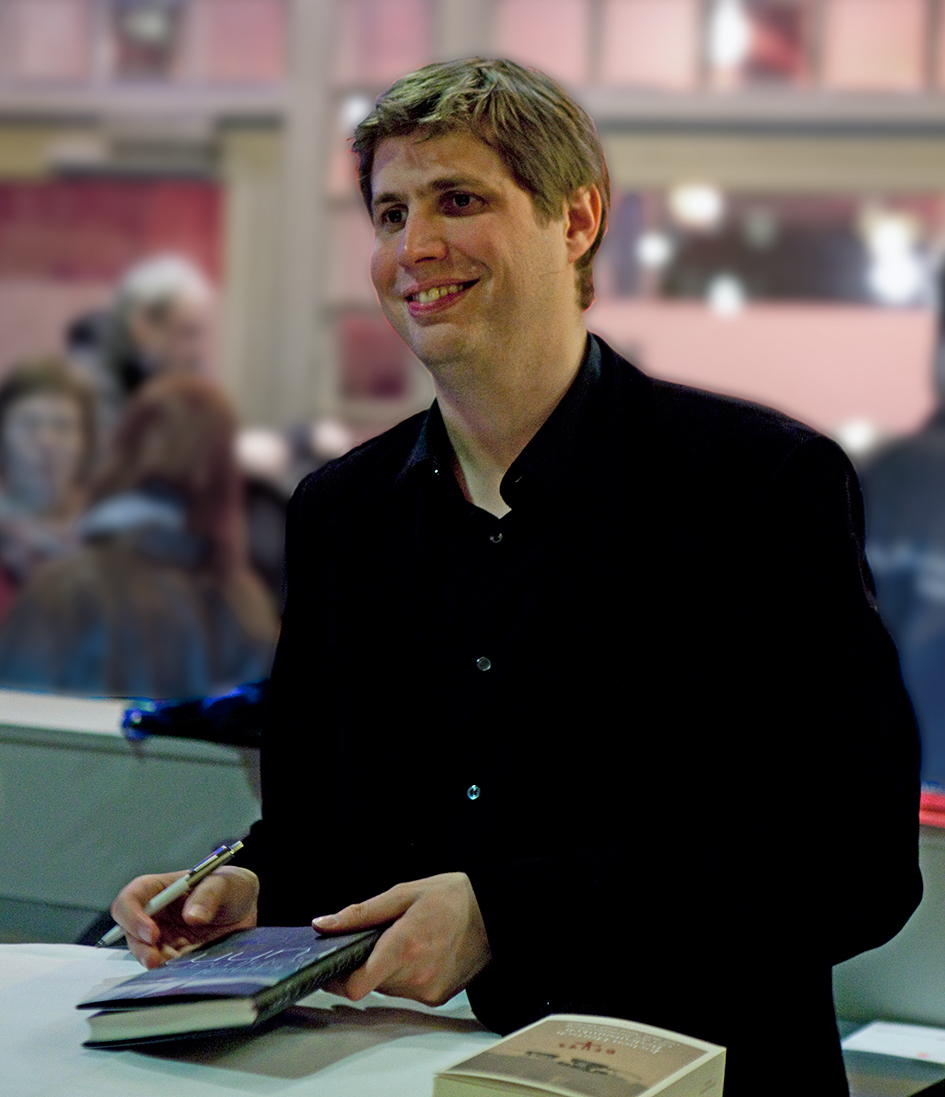 German writer Daniel Kehlmann at litcologne, 2009-03-12